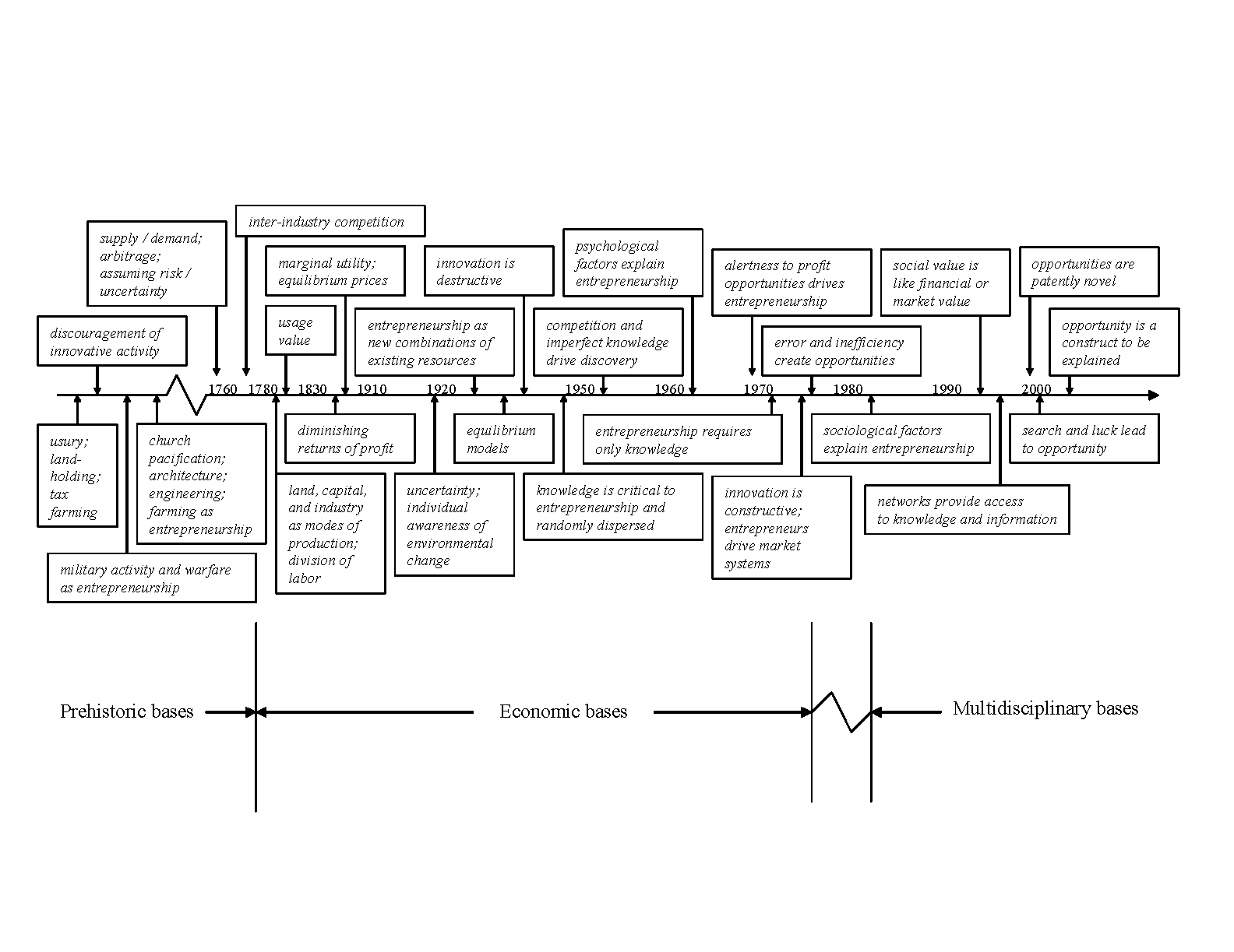 I am the creator of this image file and the model it depicts. I published an article containing an earlier version of the model in Volume 12, Issue 1 of the Journal of Management History. Cited below